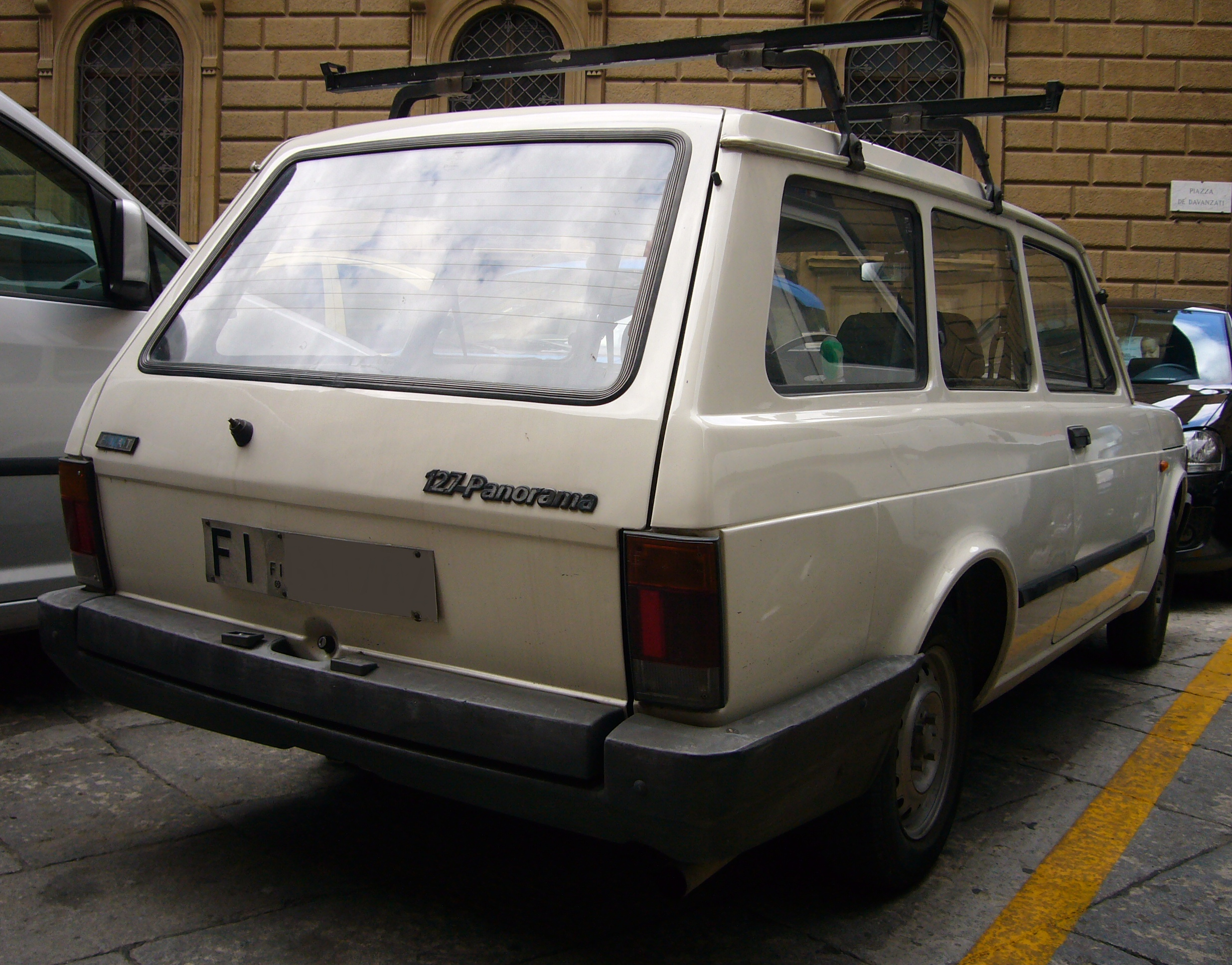 Fiat 127 Panorama in Firenze, Tuscany, Italy